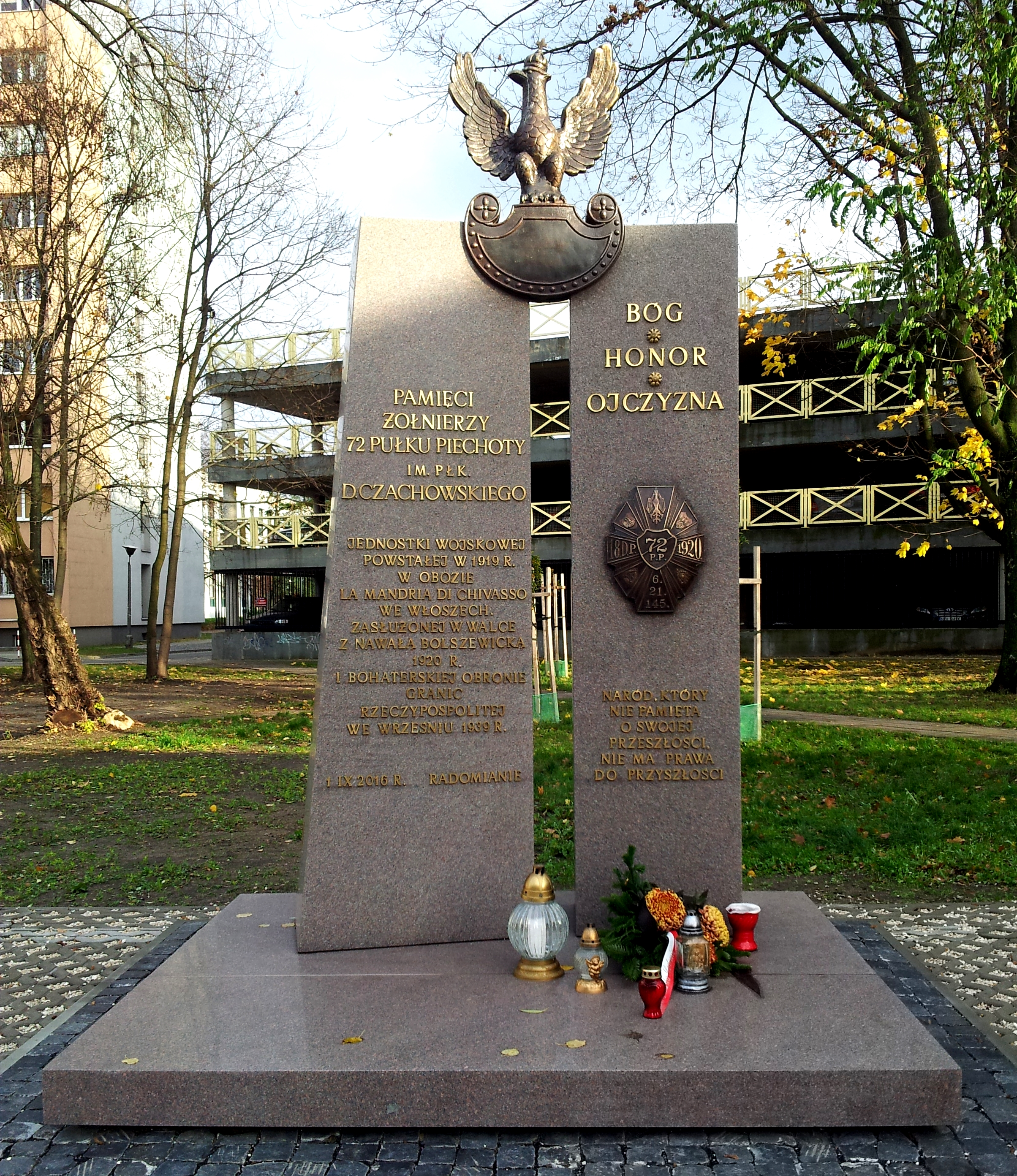 72nd Infantry Regiment monument in Radom